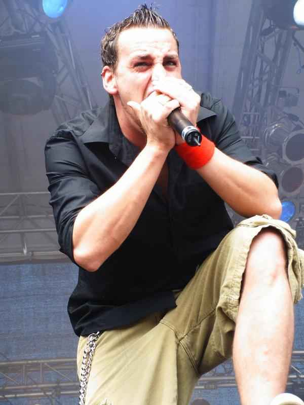 Markus Grimm live